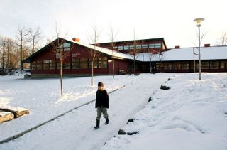 Billingstad primary school, Billingstad, Asker, Akershus, Norway